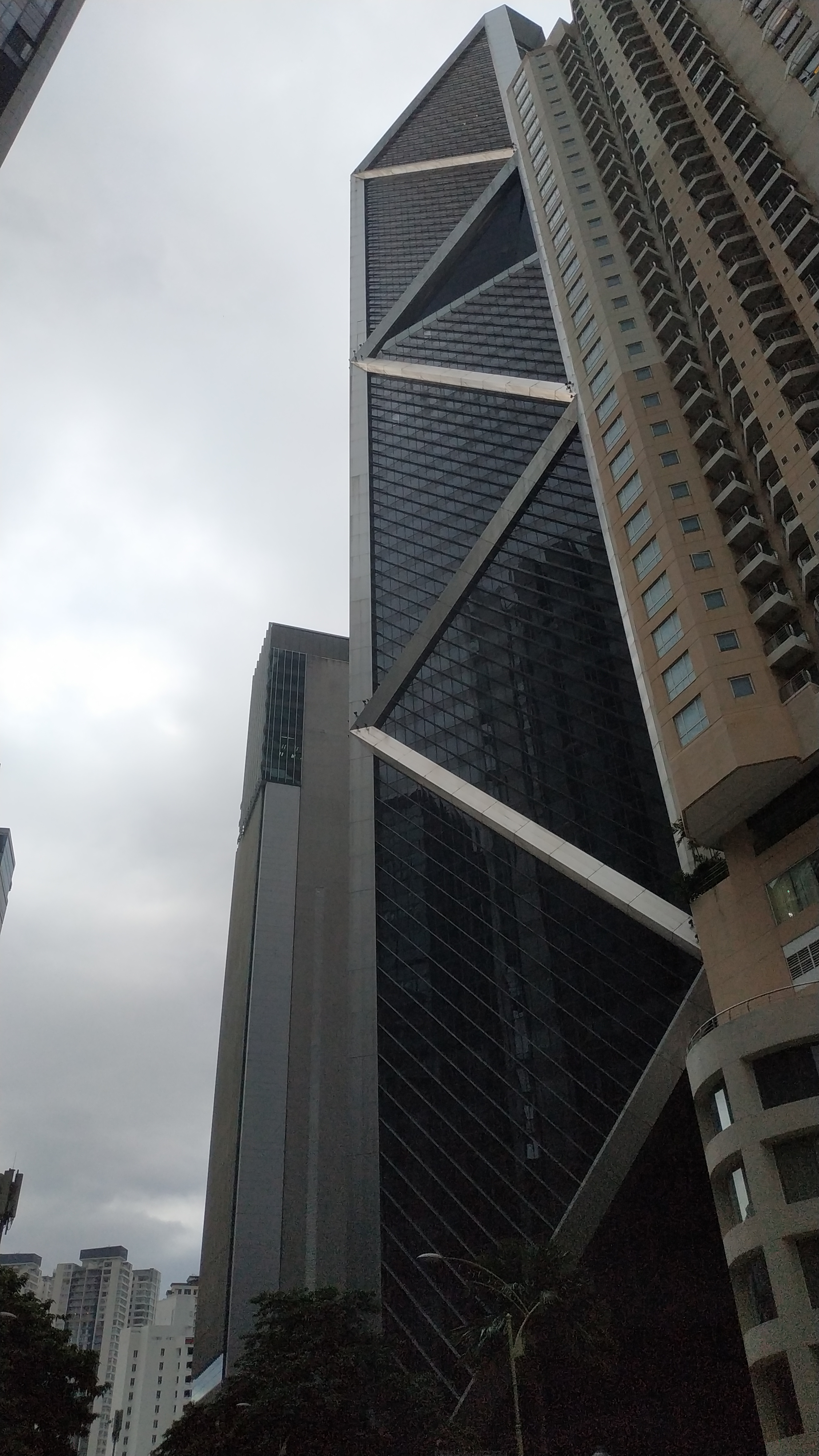 Ilham Tower, Kuala Lumpur in April 2020